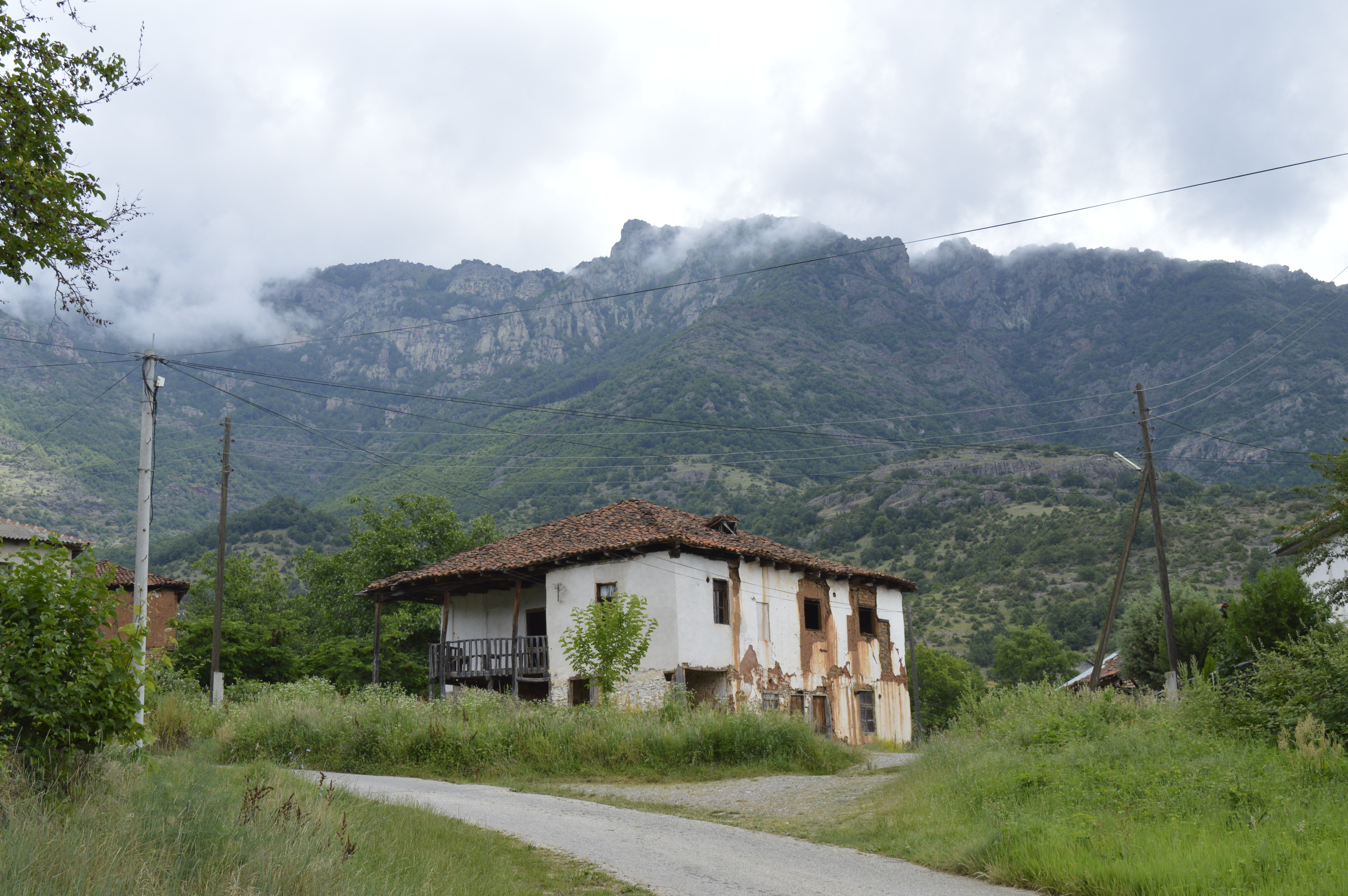 Part of the village Bistrica